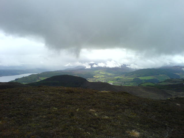 View down Loch Ness on the way to the summit of Meall Na H'Eilrig This captures the Highlands in all their moody majesty.